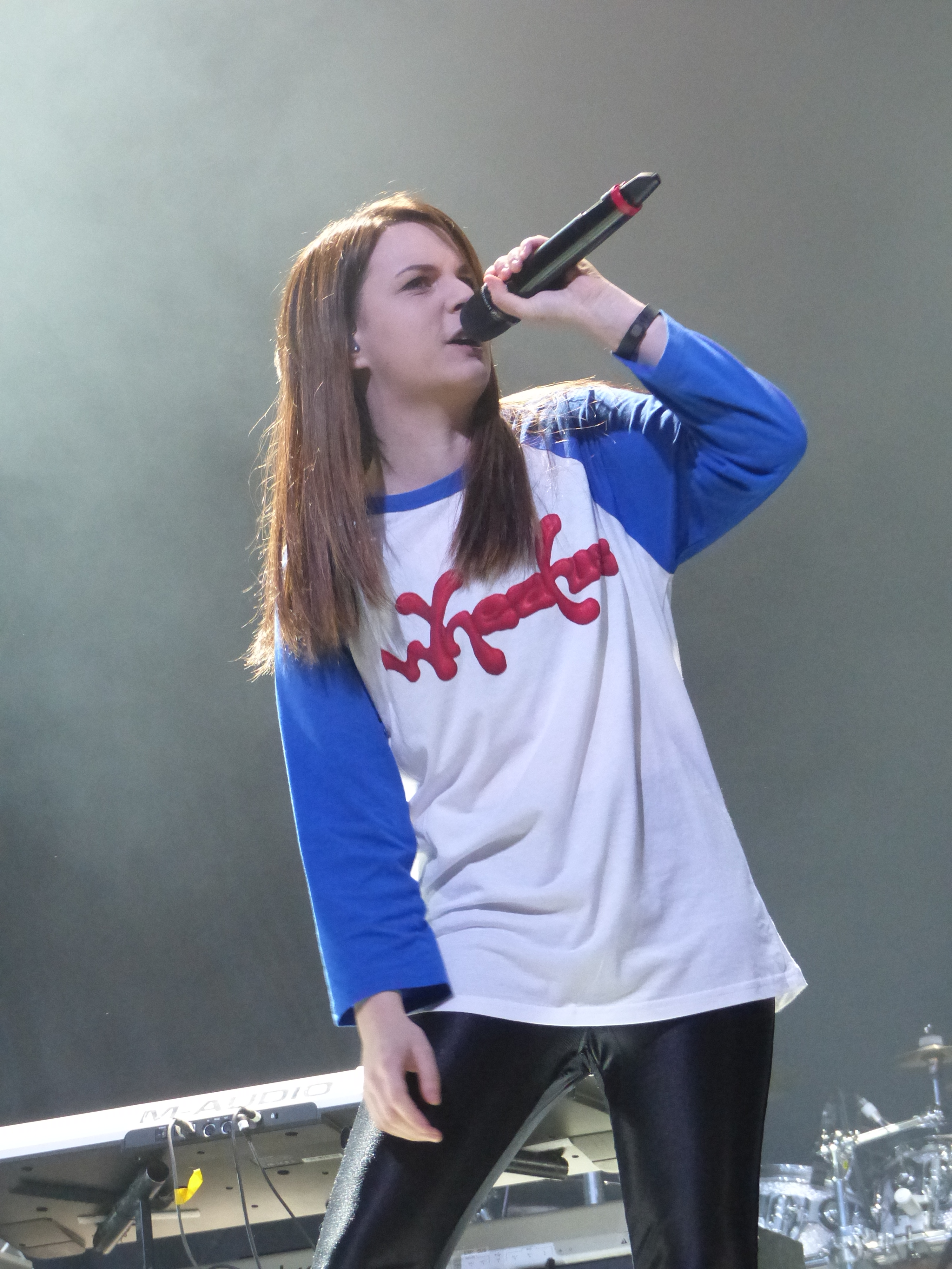 Emma Blackery performing at the Manchester Arena, 2016